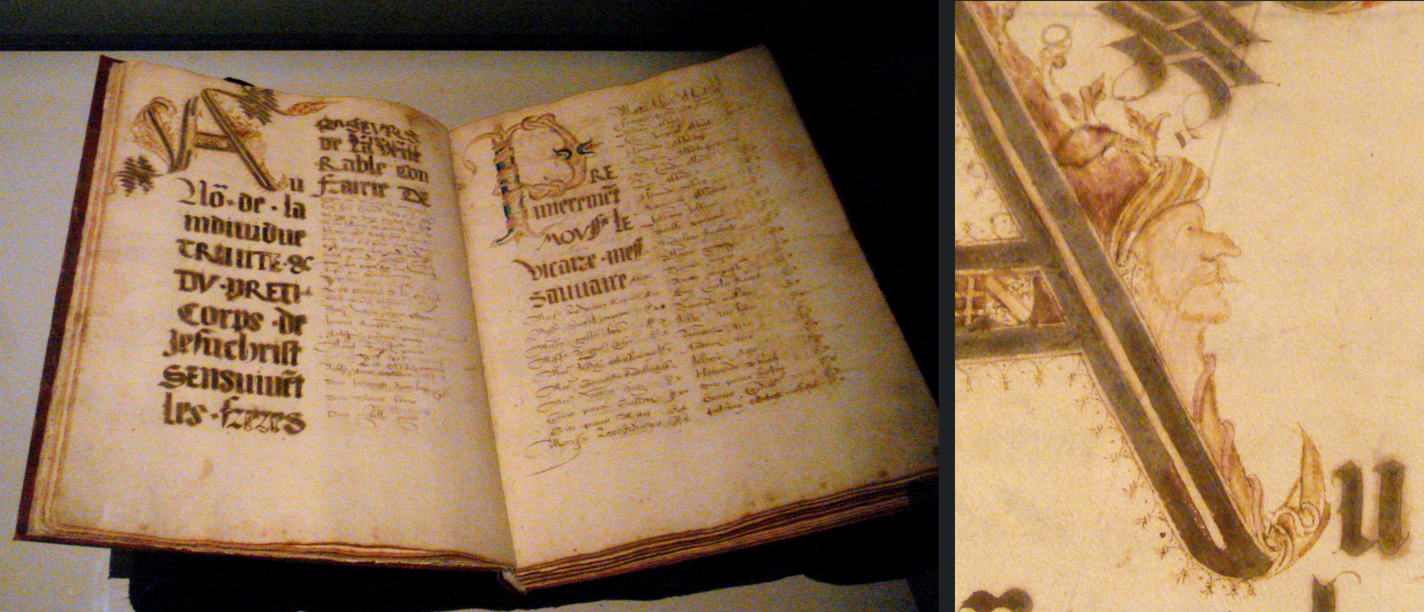 Cartulaire de la confrérie du corpus Domini : Toulon (Var), 1550-1620 comportant sur l'enluminure de la lettre A, un visage d'Ottoman